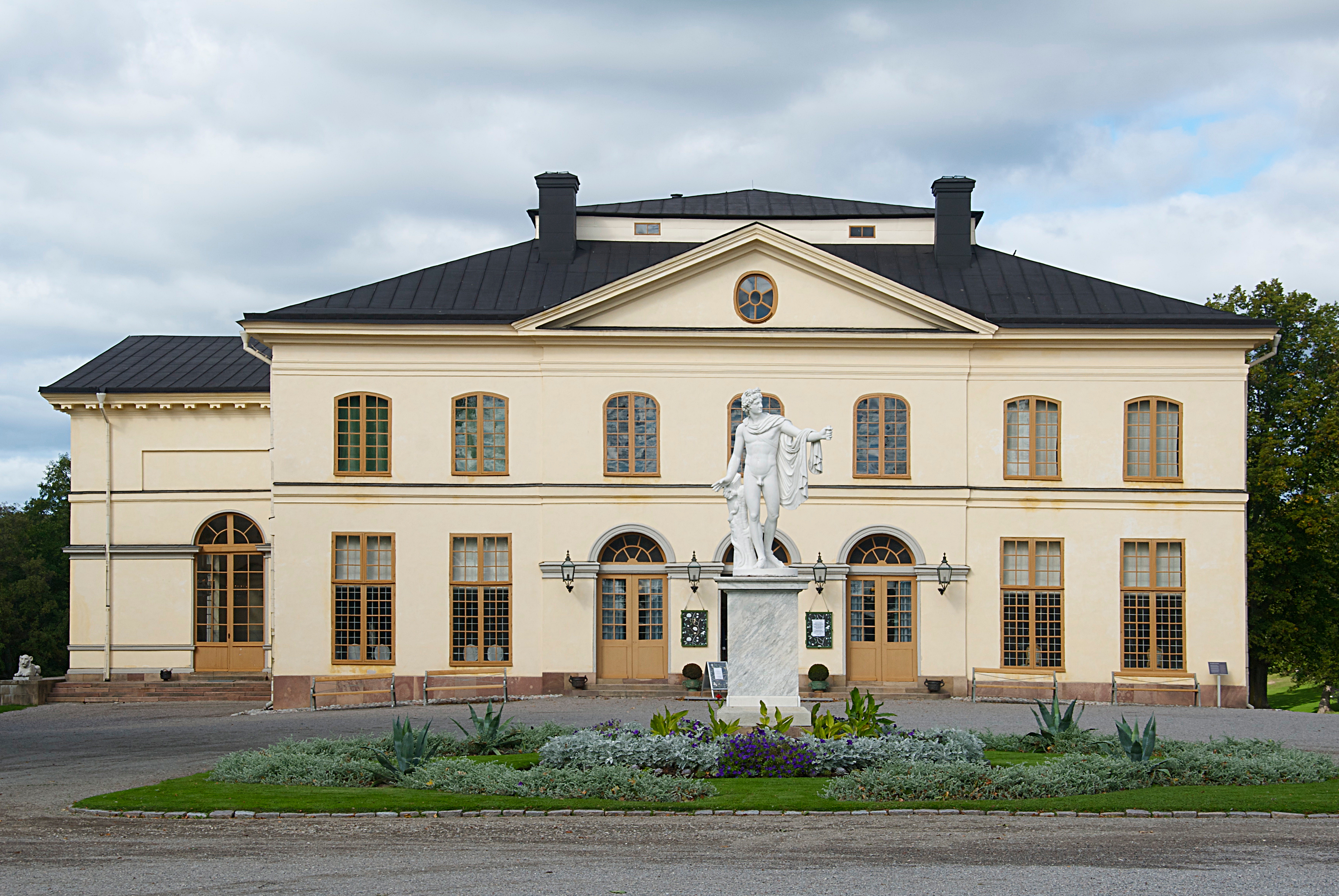 Drottningholm Palace Theatre.